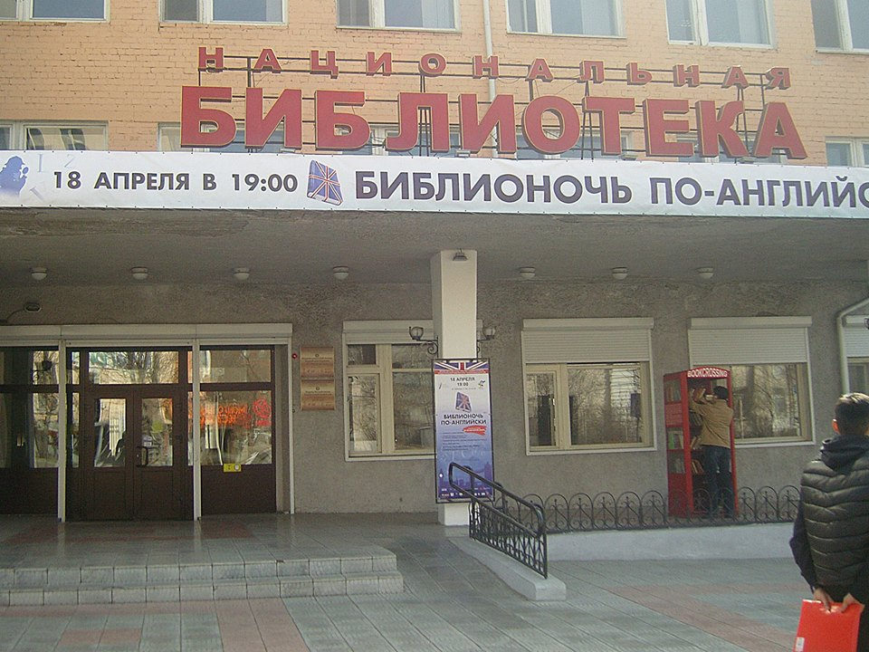 National Library of the Republic of Buryatia